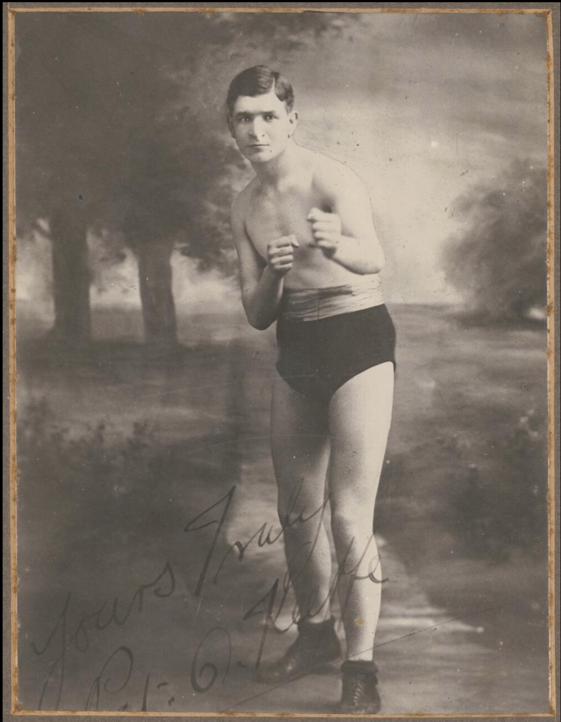 Signed picture of Pat O'Keeffe in Australia